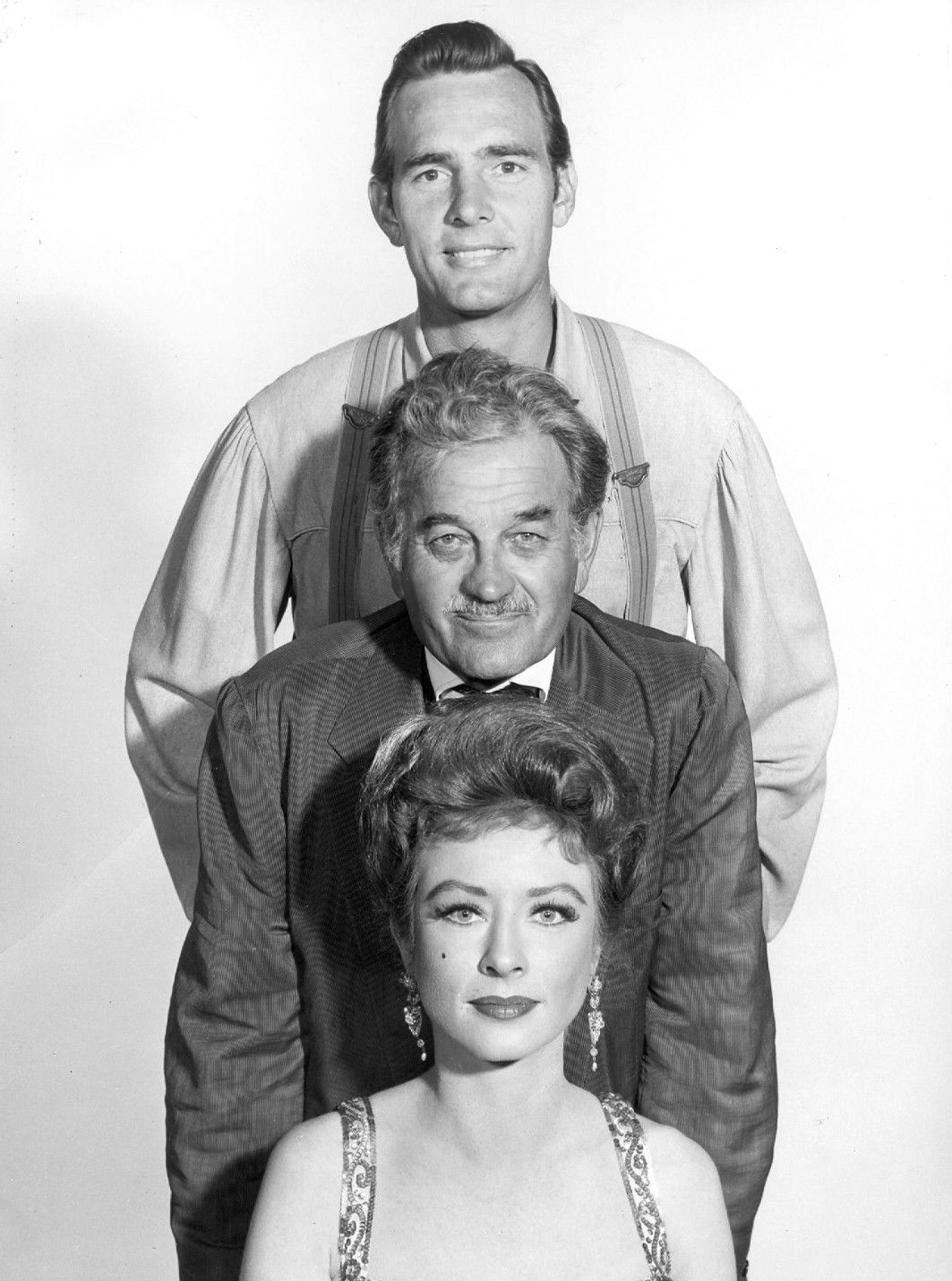 Photo of the supporting cast of Gunsmoke in 1960. From top-Dennis Weaver (Chester Goode), Milburn Stone (Doc Adams) and Amanda Blake (Miss Kitty Russell).